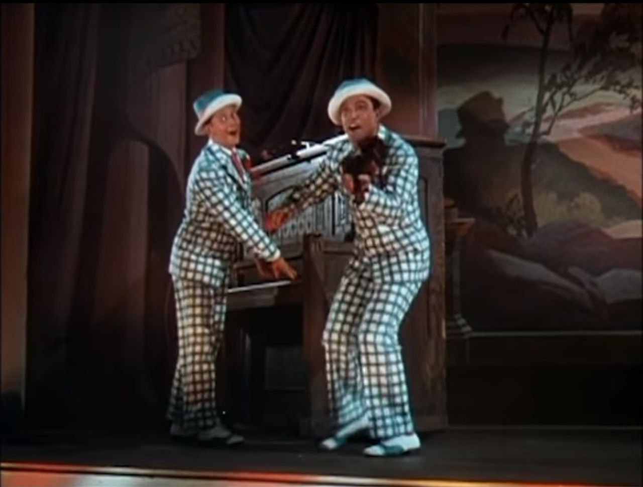 Donald O’Connor and Gene Kelly in the 1952 film Singin' in the Rain.